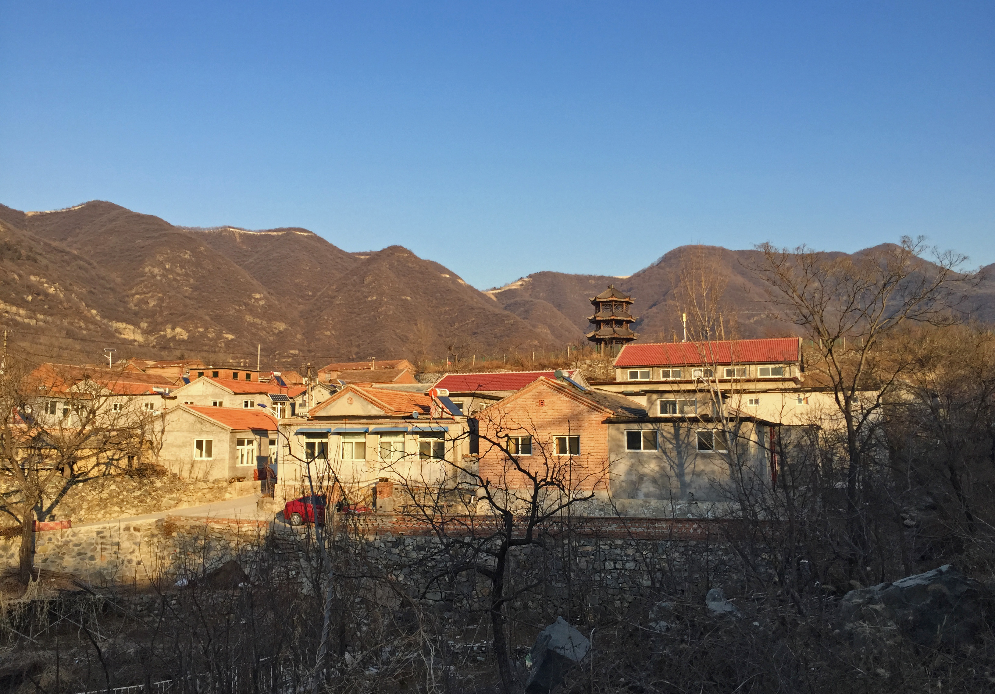 Dongshan, literally Eastern Hills, is a small village in the valley.